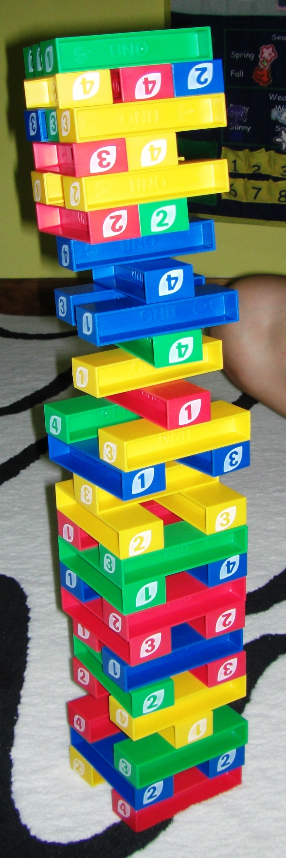 A game of Uno Stacko being played.